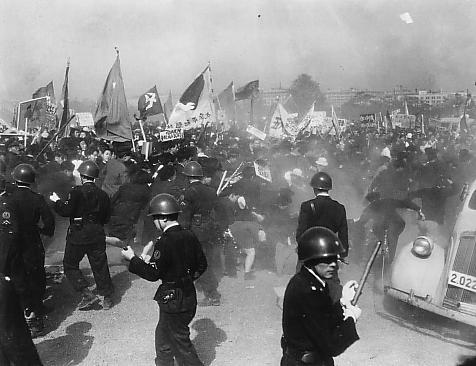 Bloody May Day Incident